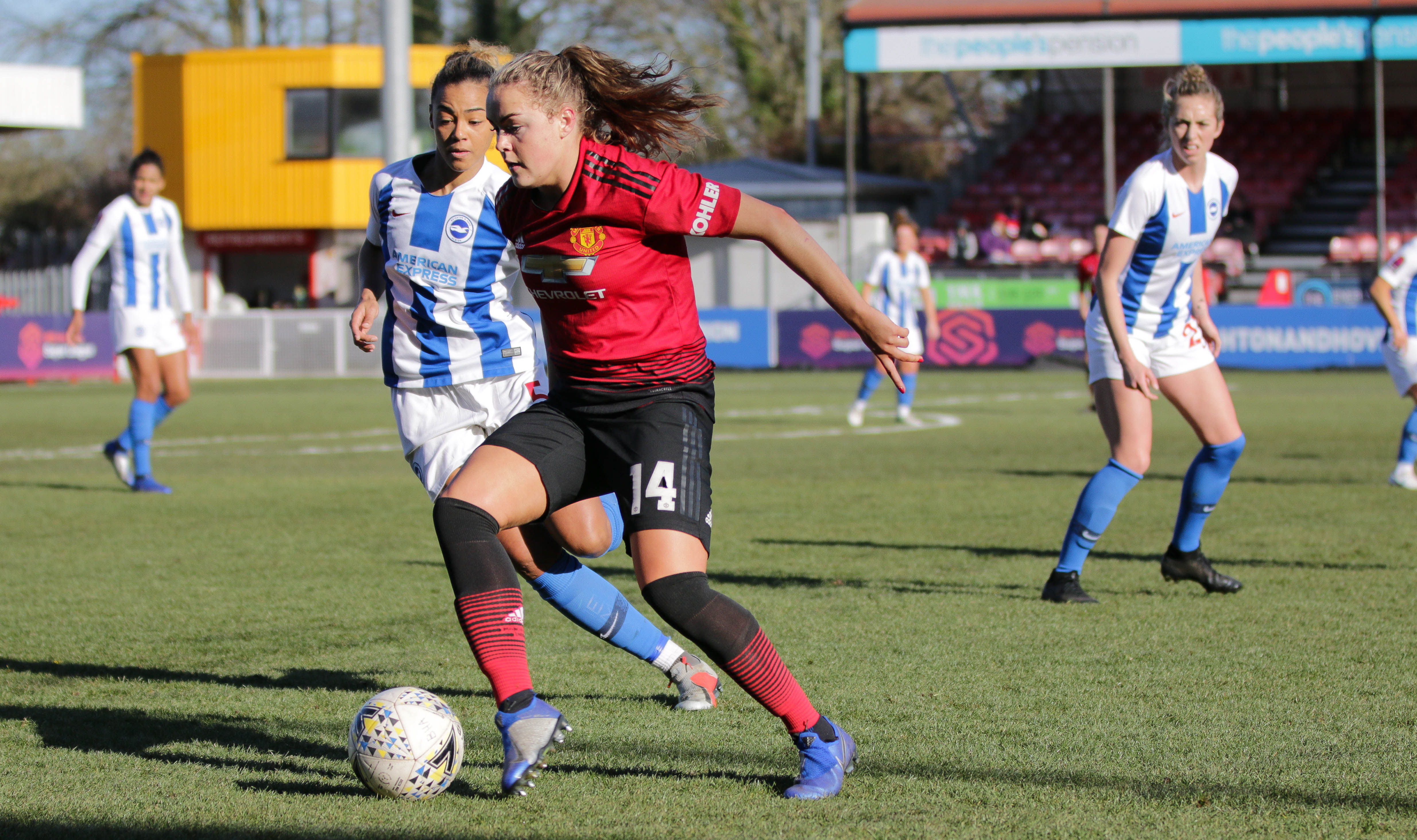 Fern Whelan, Charlie Devlin, Megan Connolly